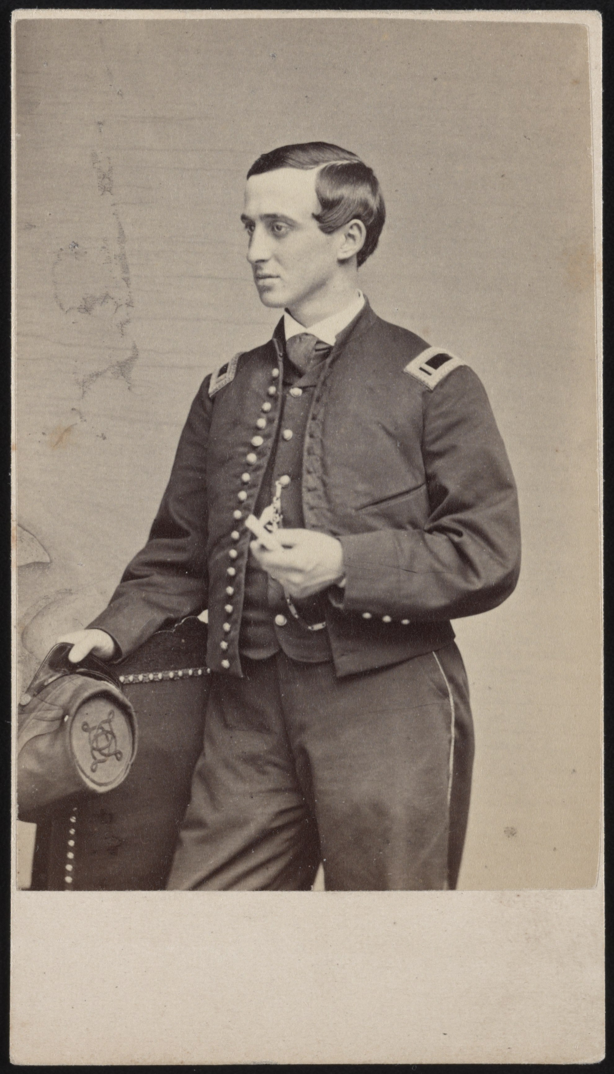 Title: Second Lieutenant Charles T. Dwight of Co. B, 70th New York Infantry Regiment, in uniform] / Whipple, 96 Washington Street, Boston Abstract/medium: 1 photograph : albumen print on card mount ; mount 11 x 7 cm (carte de visite format)